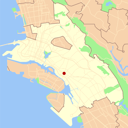 Map showing the location of Fruitvale in the city of Oakland, California. Created by User:Nogood using U.S. Census Bureau data.